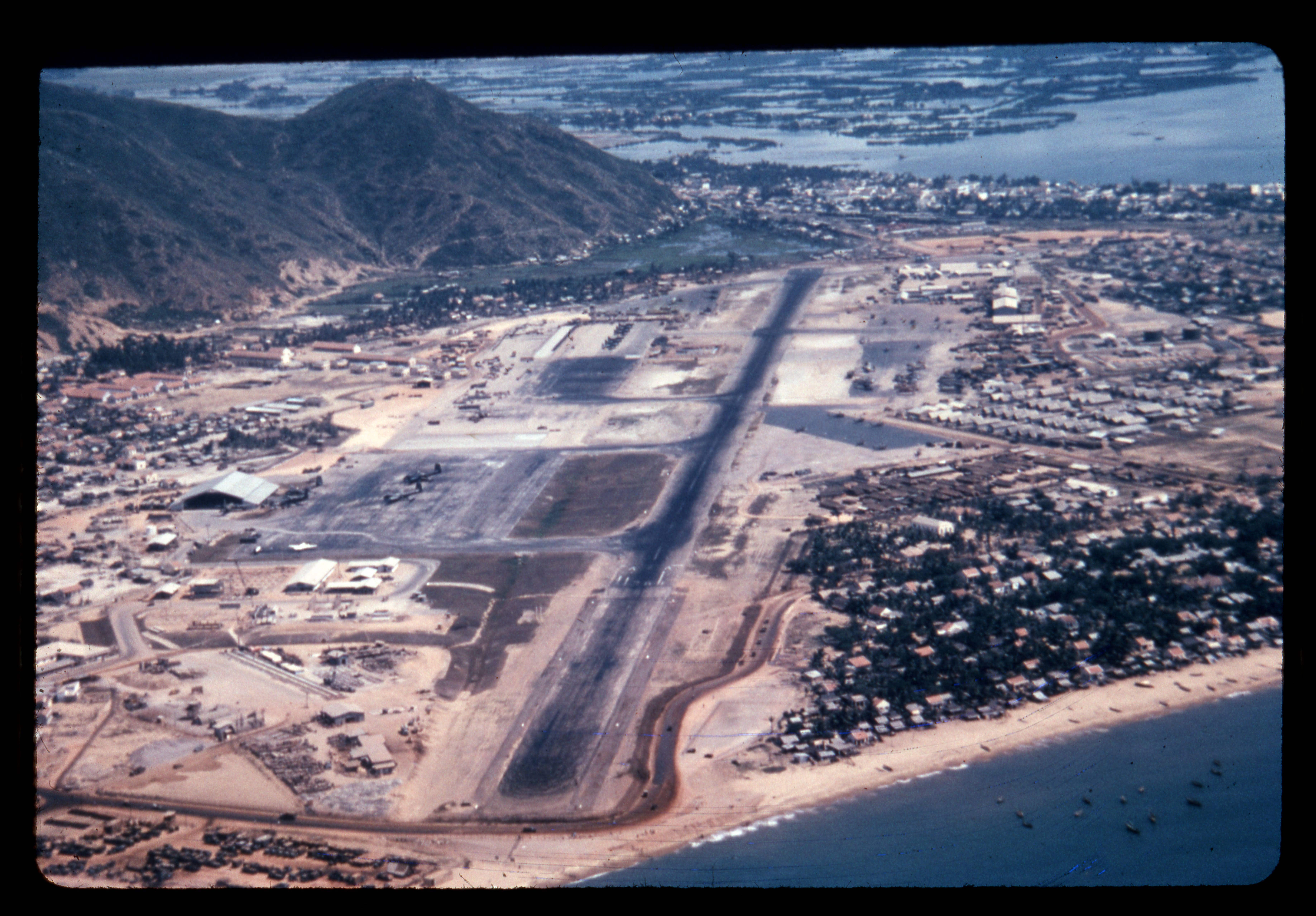 Army Engineers are continuing to improve the Qui Nhon airfield. At the present time pierced steel planking is being removed from the east or right hand apron in the upper portion of the picture in preparation for the placement of a multiple surface treatment.